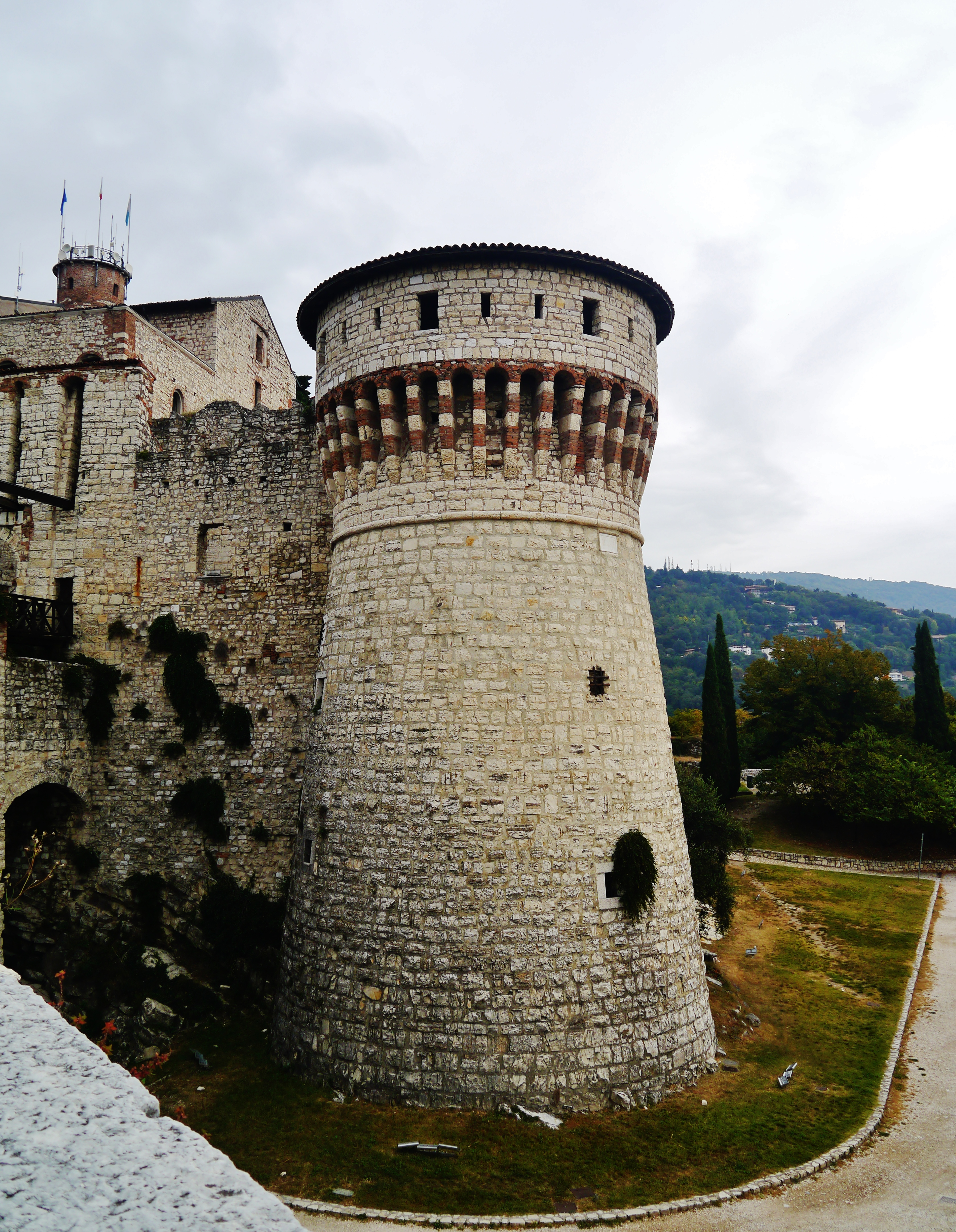 Prison Tower of Brescia Castle, Brescia, Province of Brescia, Region of Lombardy, Italy